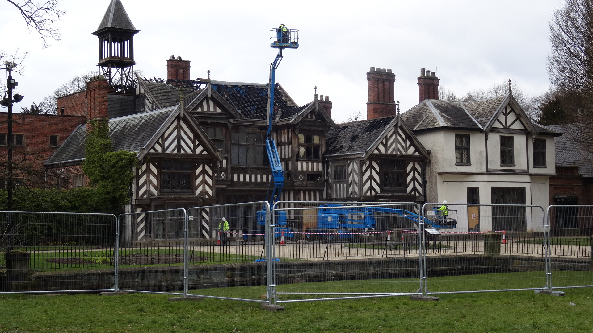 East view of Wythenshawe Hall (Manchester 23, England) on 21 March 2016, after the 15 March 2016 fire